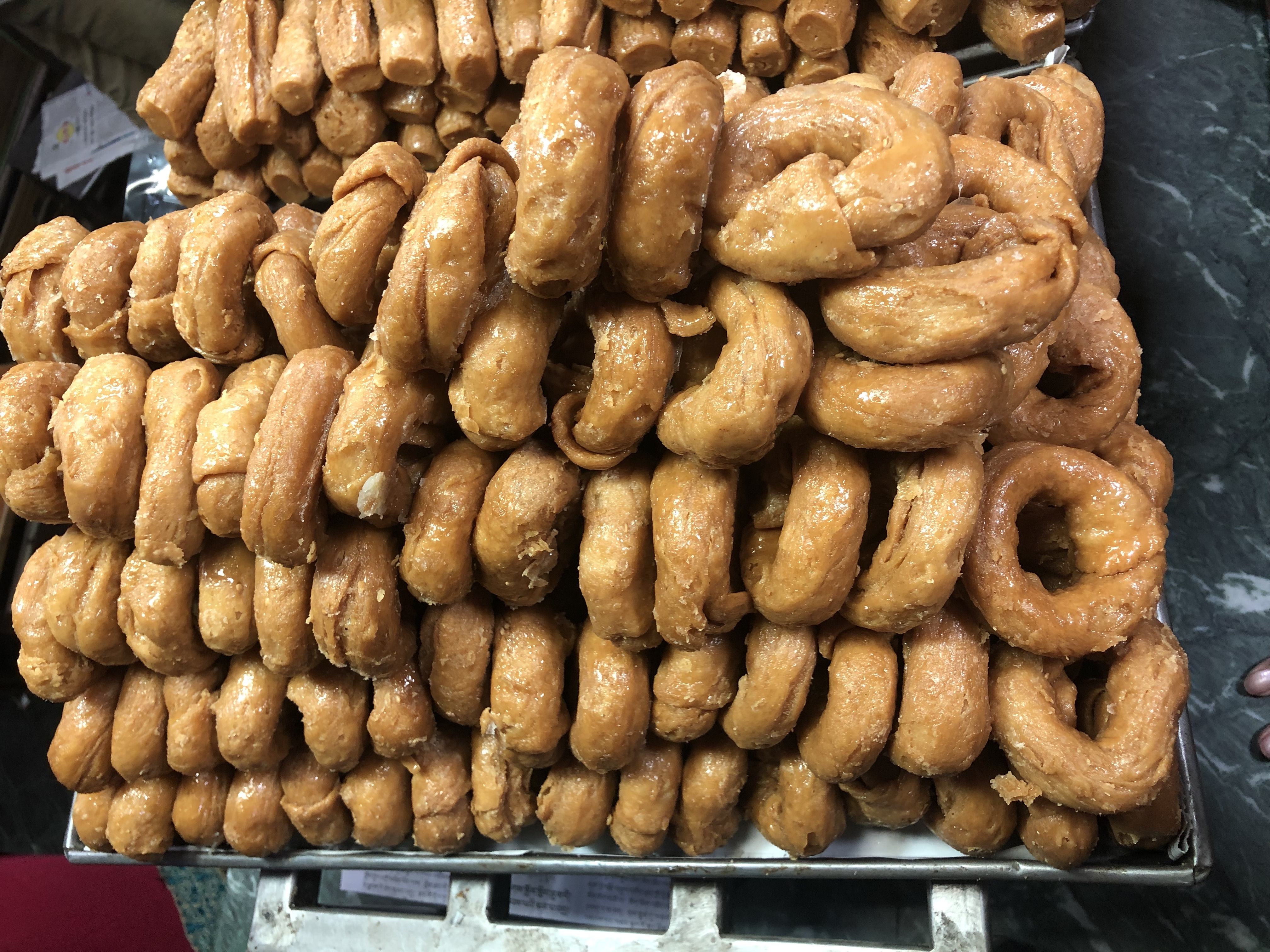 Sweet called aaitha